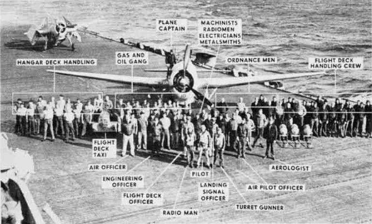 About 90 people were necessary, to get one Grumman TBF-1 Avenger in the air, as exemplified here aboard the U.S. Navy escort carrier USS Card (CVE-11) in 1943.